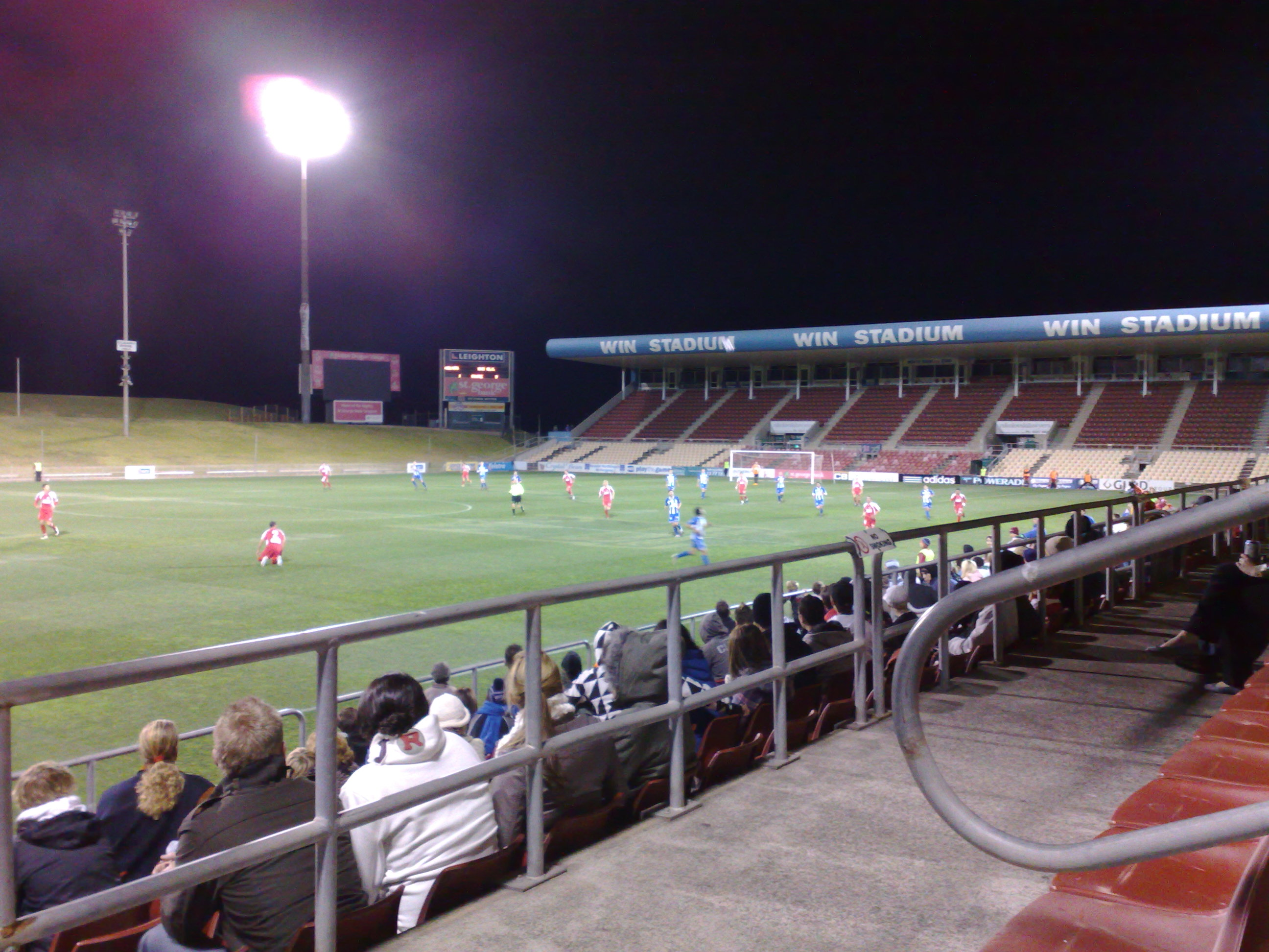 Photo of WIN Stadium